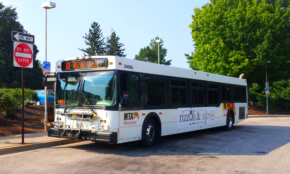 MTA Maryland New Flyer DE40LF bus #4086 at Reisterstown Plaza Station.